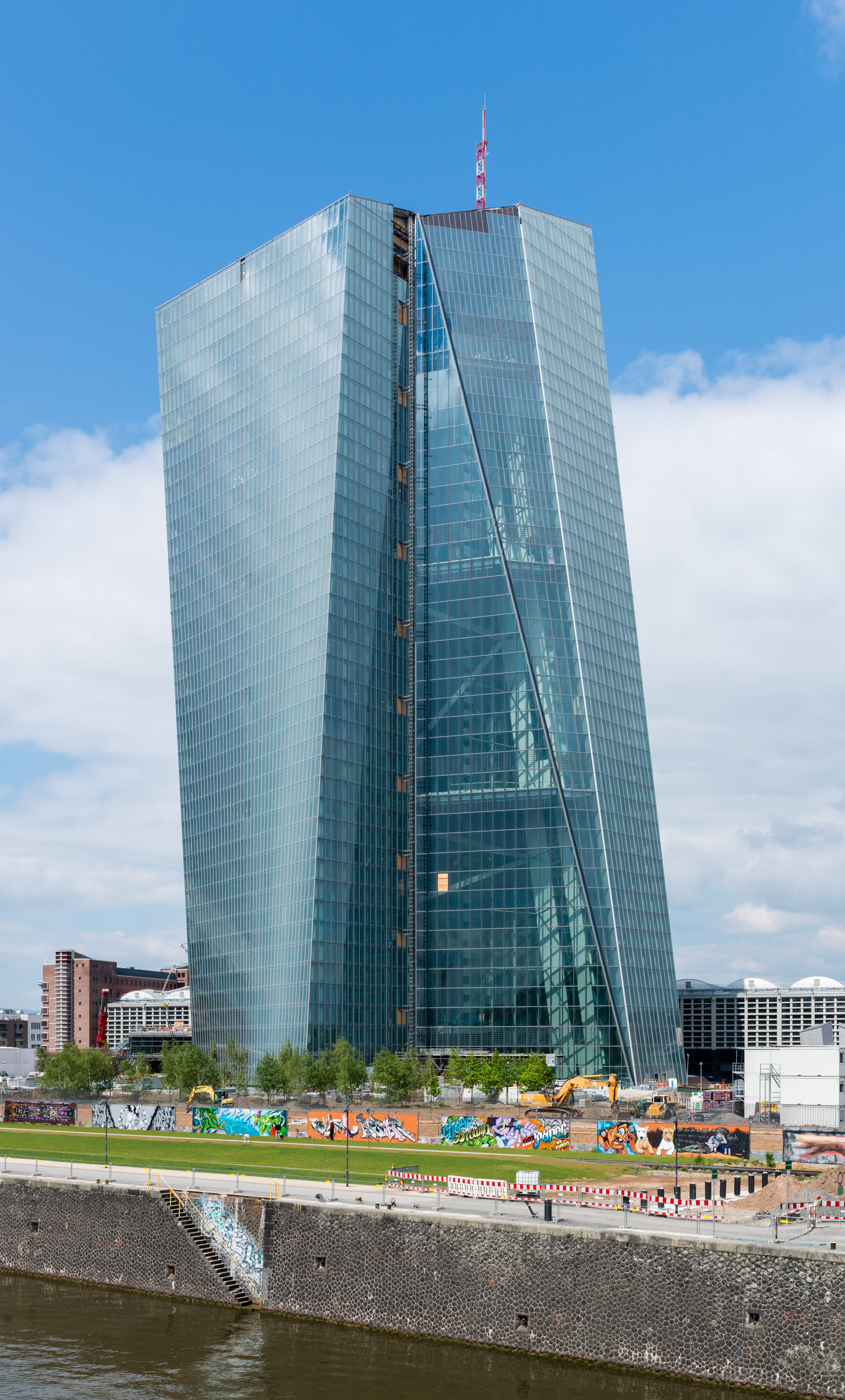 New building of the European Central Bank in Frankfurt Main, Germany.